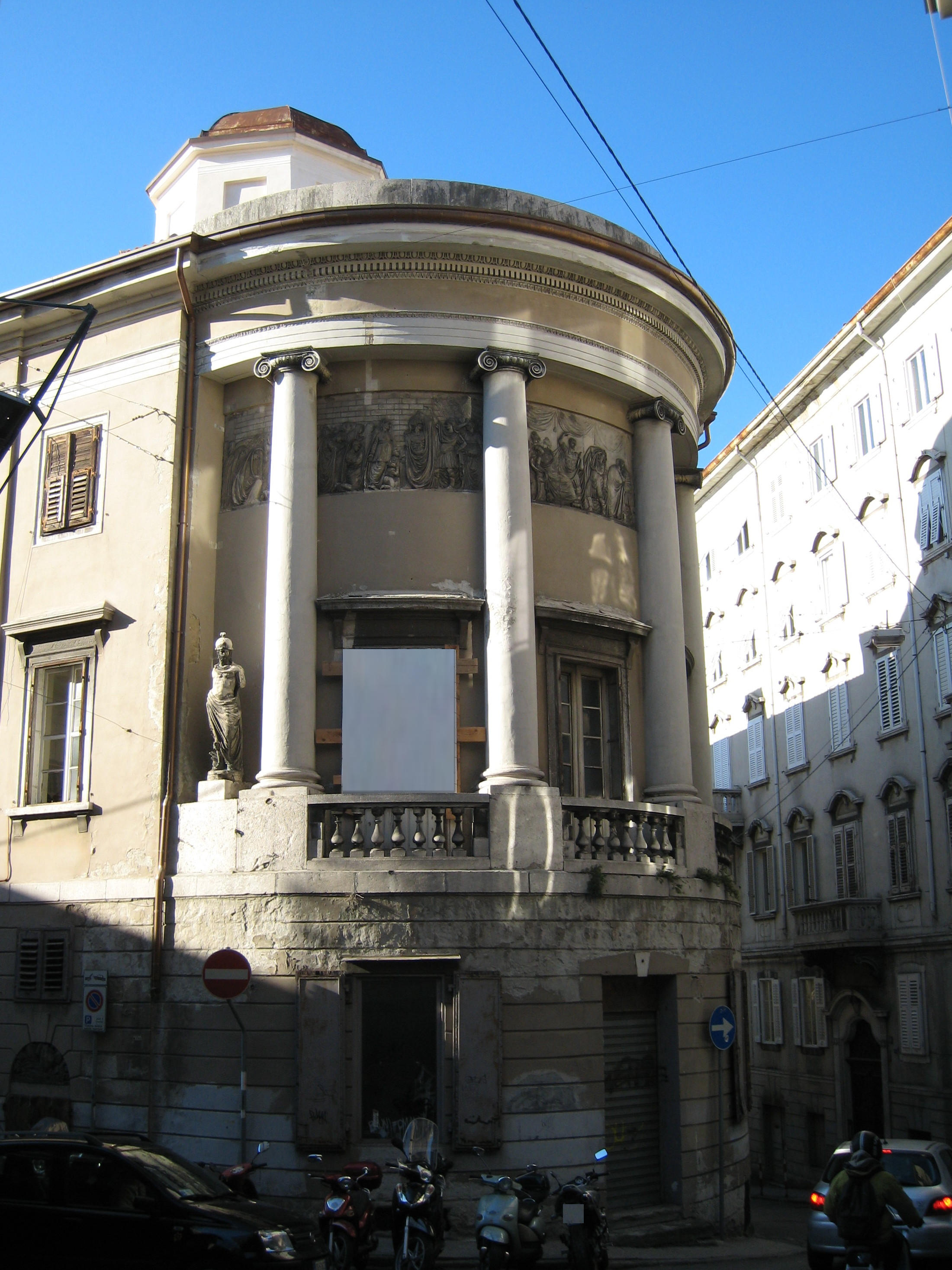 Italy - Trieste - Rotonda Pancera